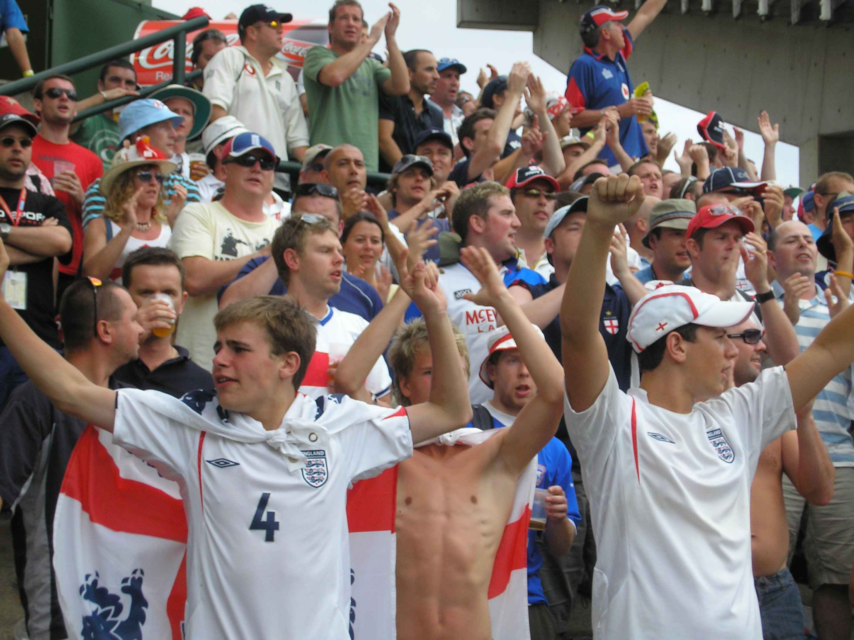 England's Barmy Army. Sydney Cricket Ground, Tuesday 2 January 2007.